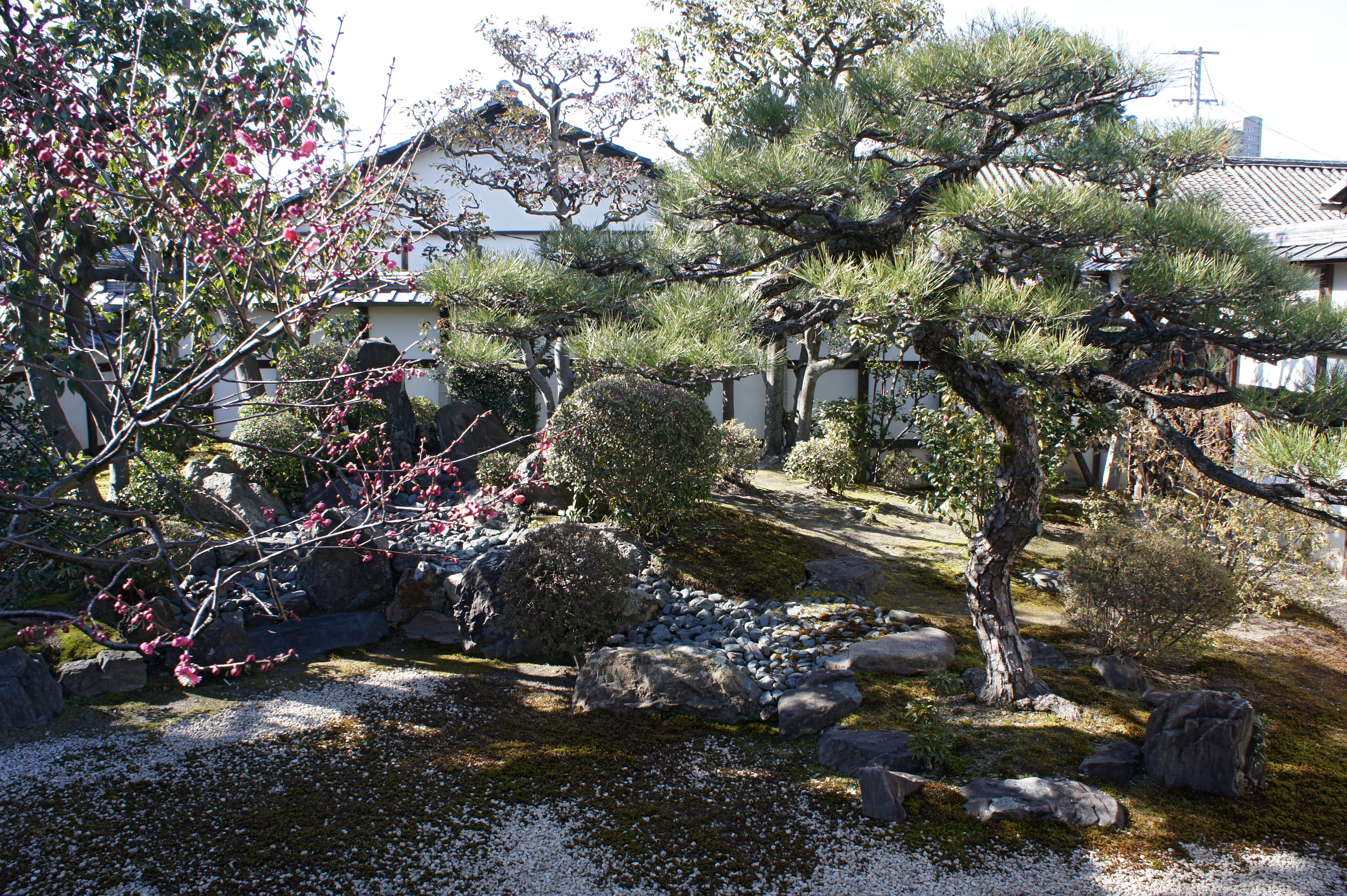 Kusatsu-juku Honjin in Kusatsu, Shiga prefecture, Japan